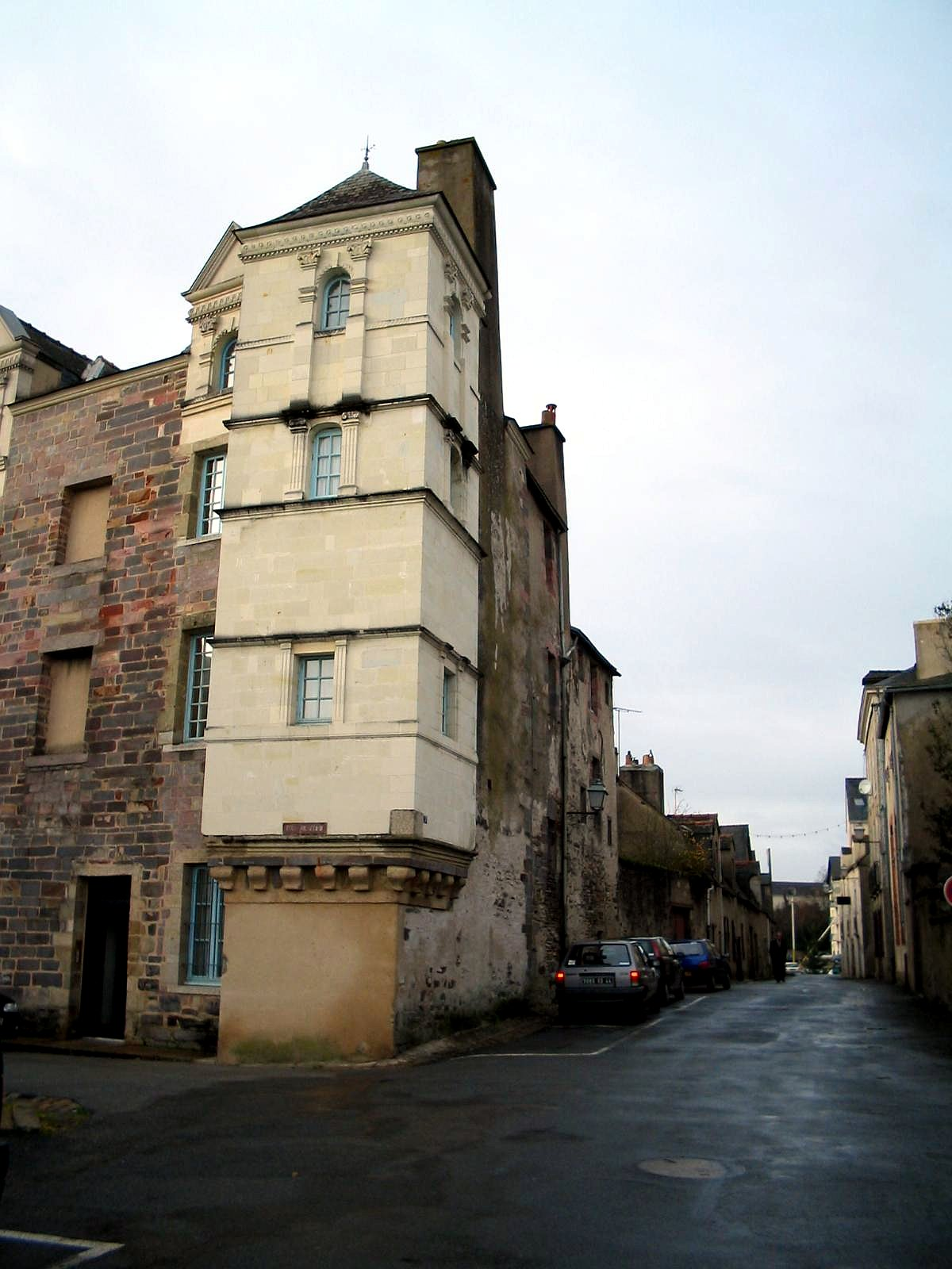 House in Rue du Plessis, Redon, Brittany, France.